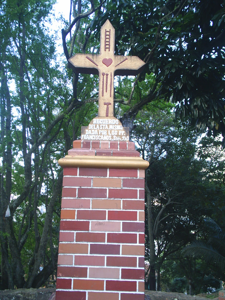 The Cross and the Hand of the Black man in Loma de la Cruz Park